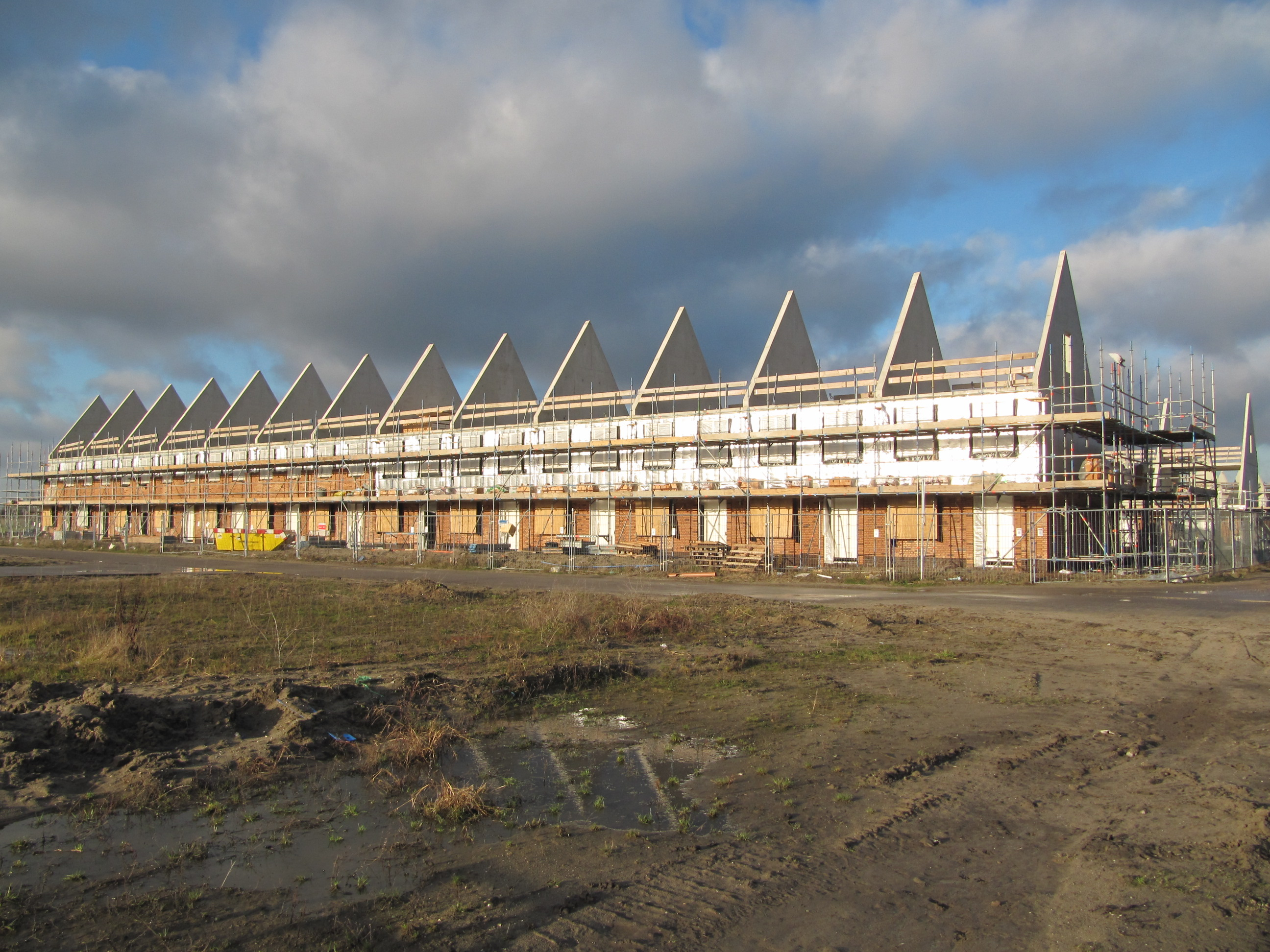 Nieuwbouw (in aanbouw) Berkel en Rodenrijs